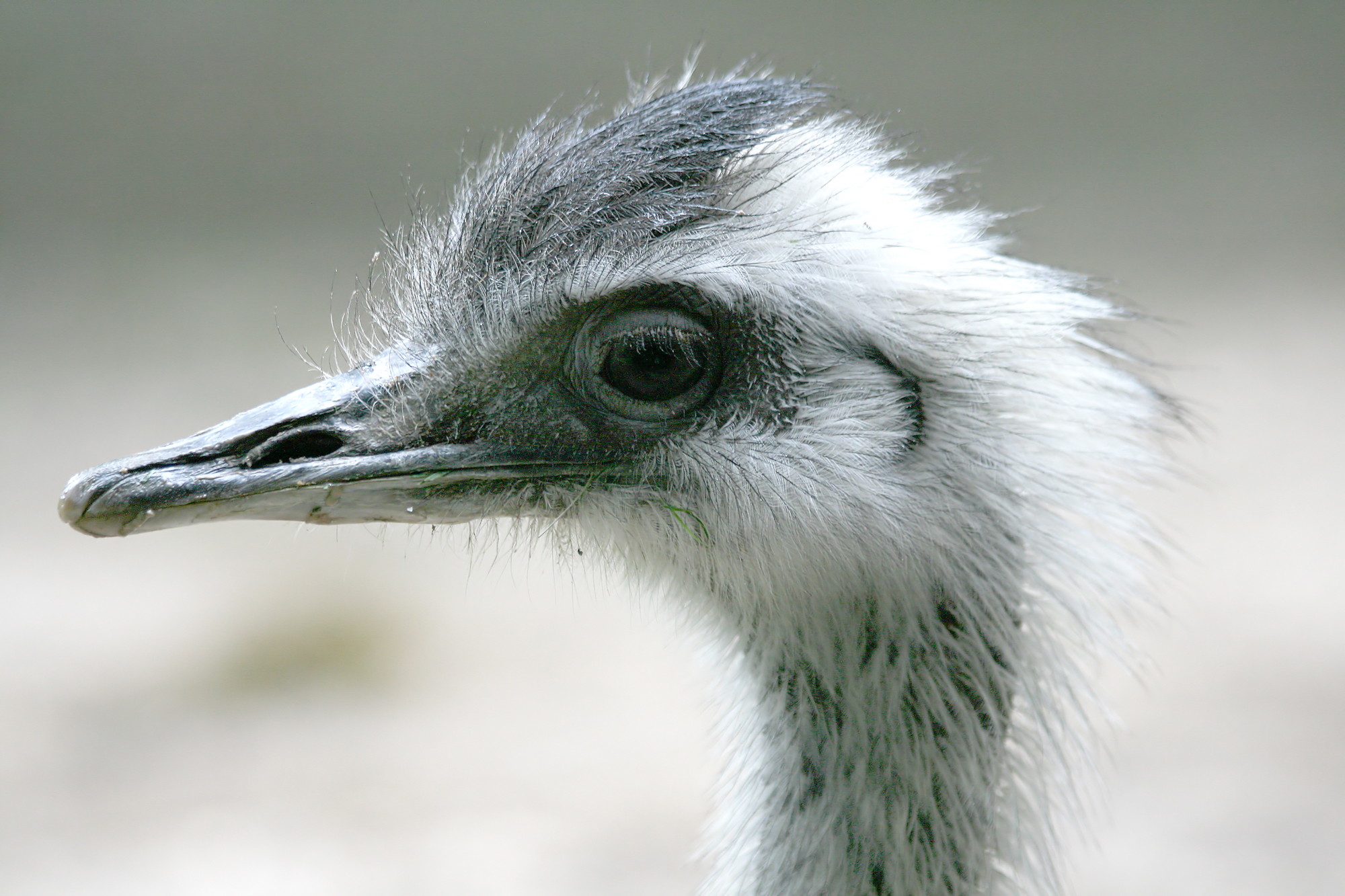 Nandu (Rhea americana)